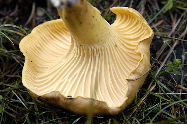 Cantharellus cibarius from Commanster, Belgium. The determination of the species shown in this picture has been verified.